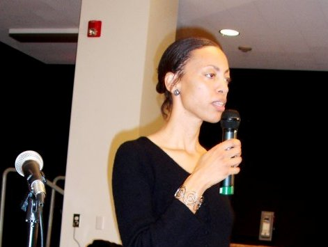 Sikivu Hutchinson speaking at the Los Angeles County Human Relations Commission's Young Women's Leadership Conference, 2007